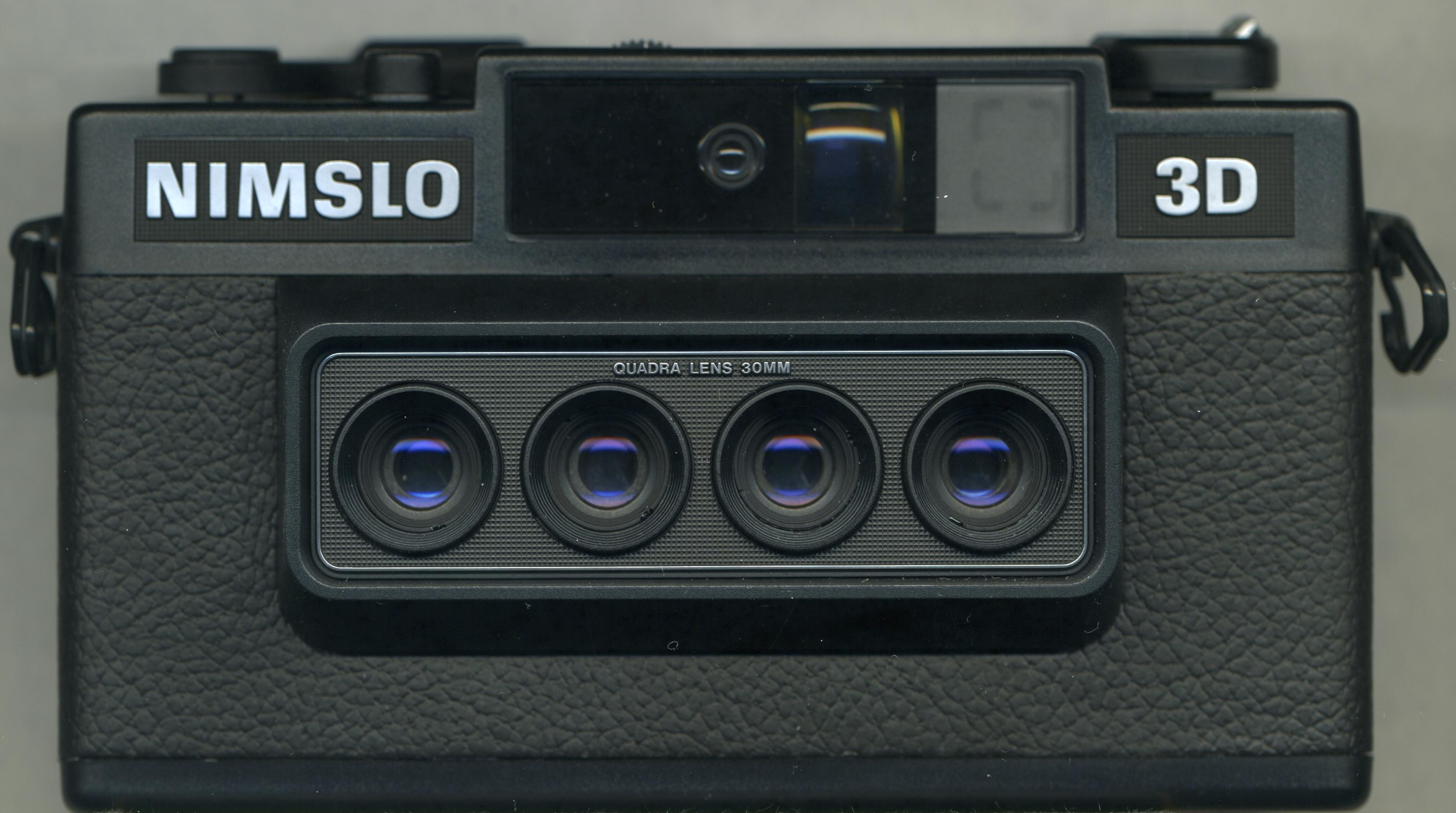 The Nimslo quadralens camera from 1980. In fairly pristine condition.